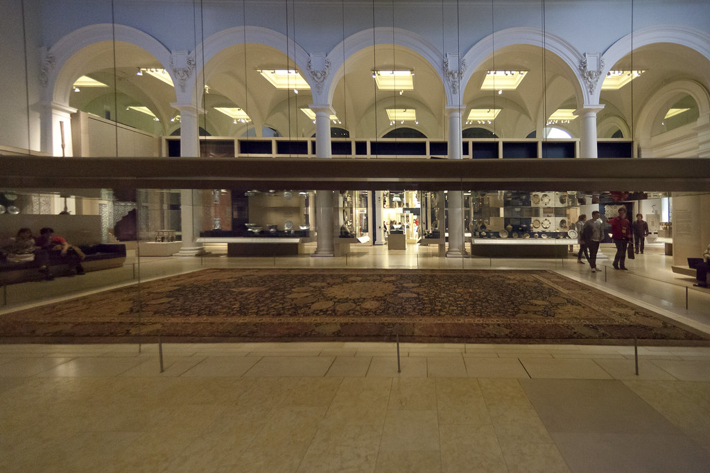 Located in Room 42, Jameel Gallery of the Victoria and Albert Museum in London, England.